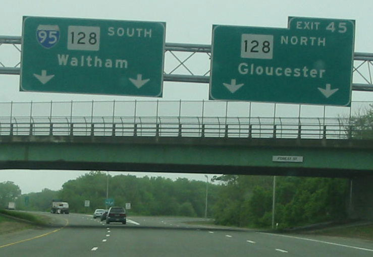 I-95 south at exit 45 in Massachusetts. Taken May 26, 2004 by SPUI.